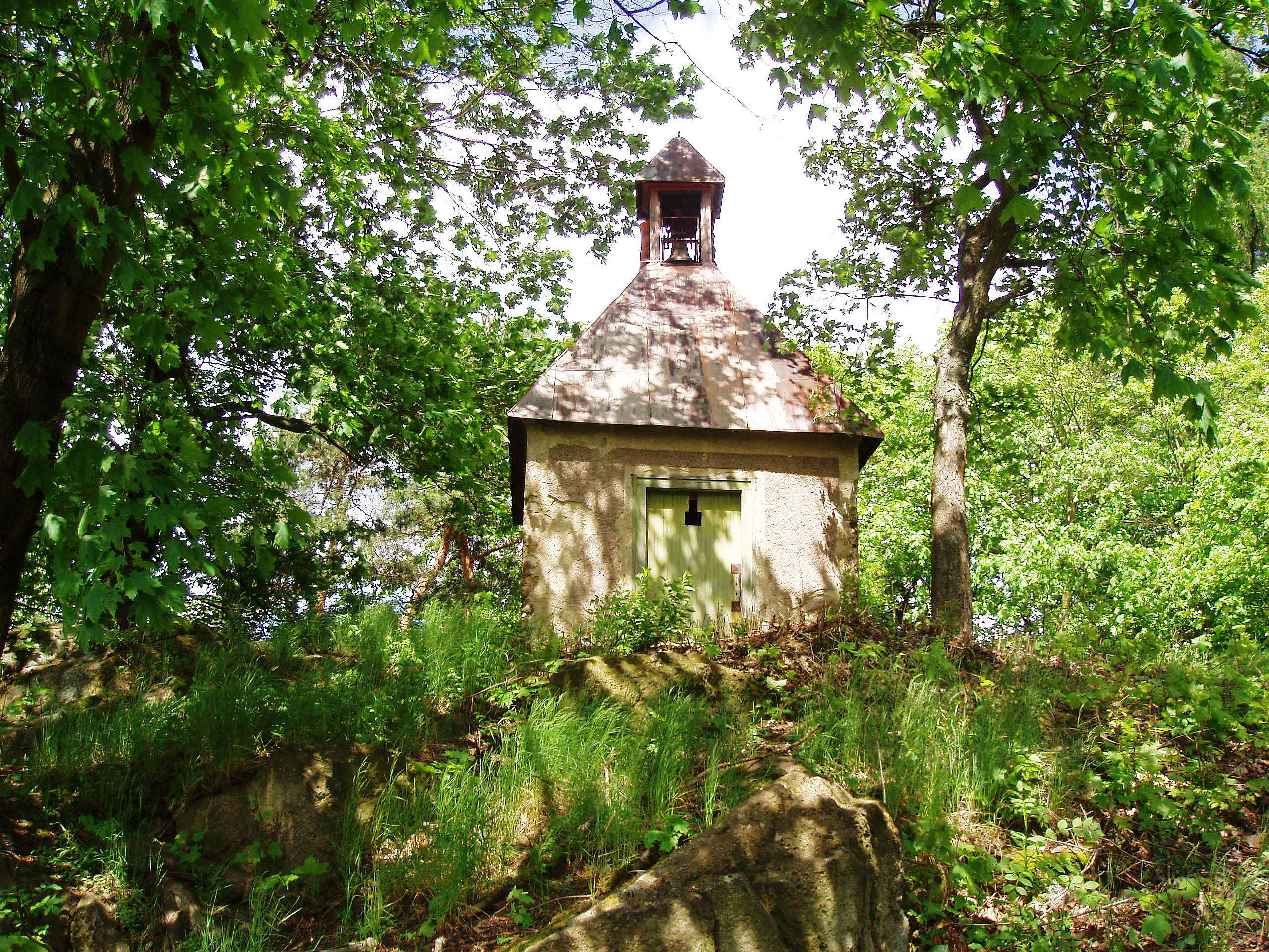 Kaple v Kardavci je v lesíku nad vesnicí